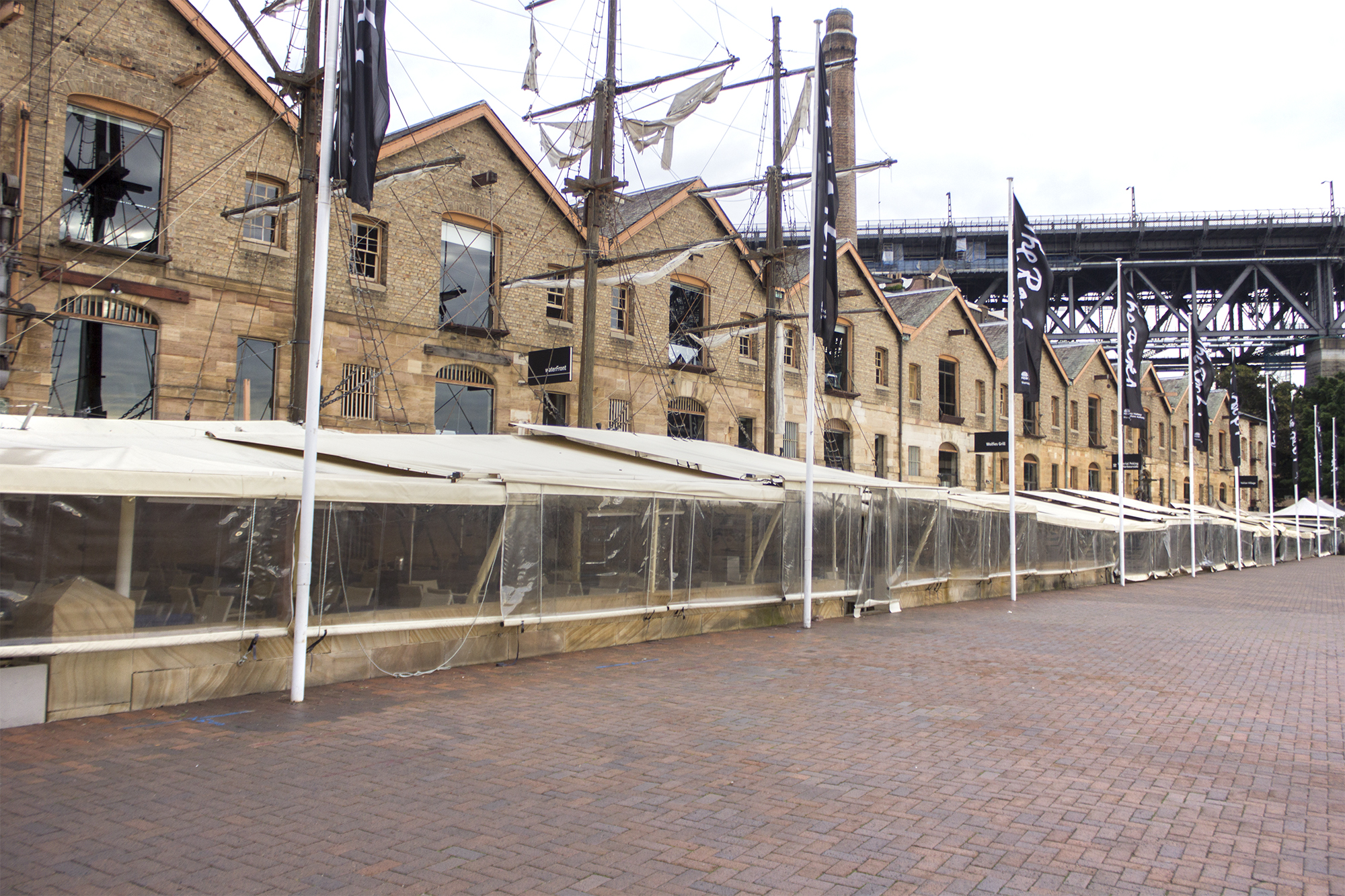 Campbell's Stores at The Rocks, New South Wales.